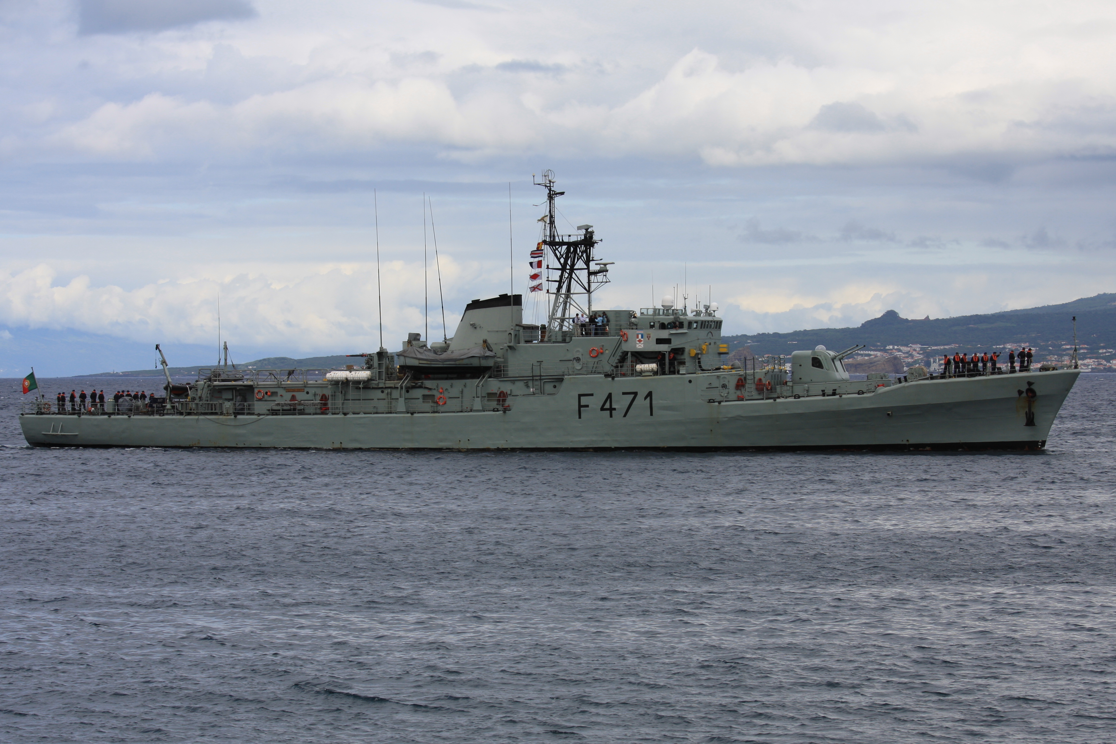 The Die corvette António Enes (F-471) of the Portuguese Navy entering the port of Horta, Azores.